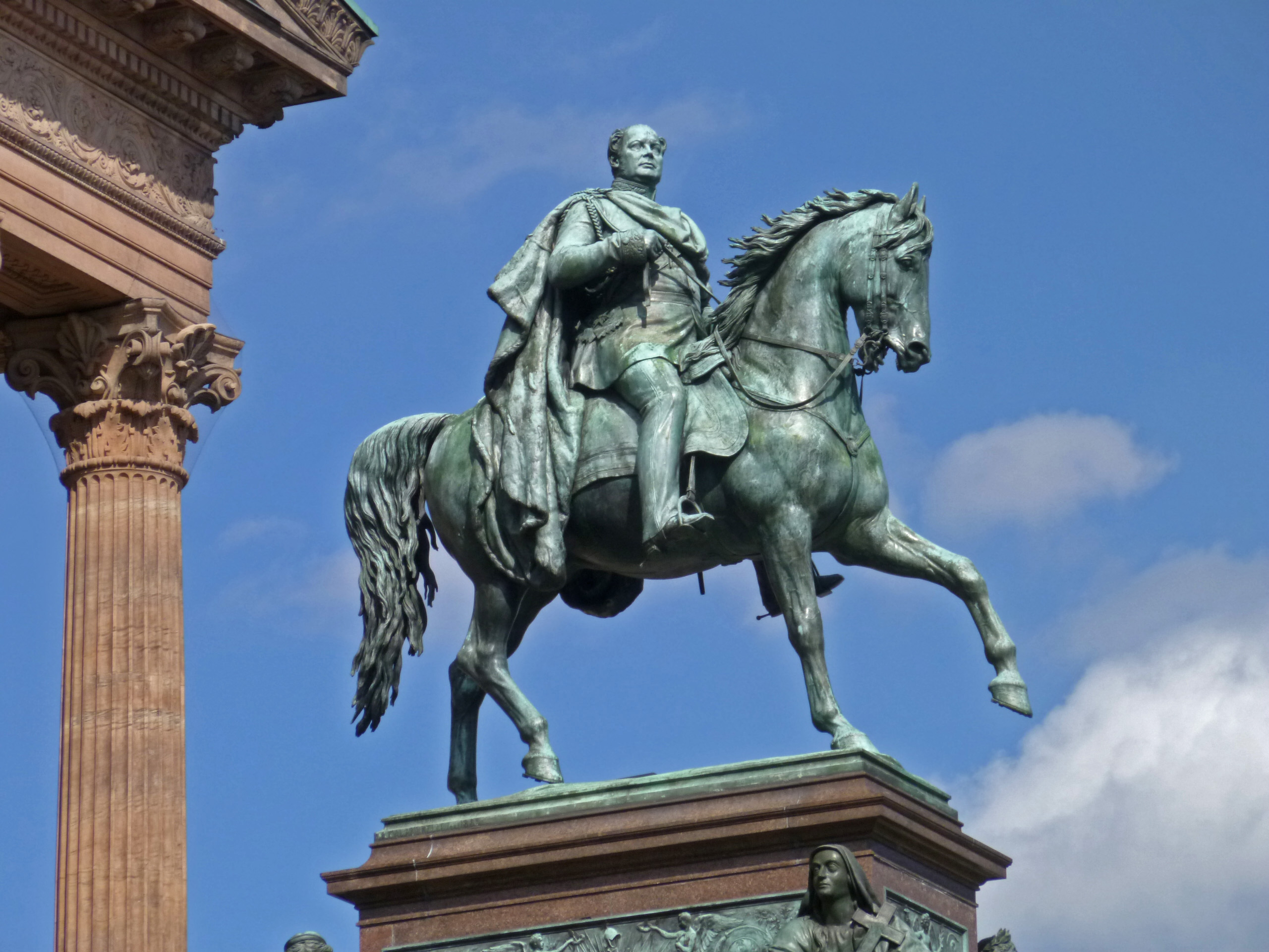 Equestrian statue of Frederick William IV on the outside staircase of Alte Nationalgalerie, Berlin, Germany; by by Alexander Calandrelli (1875-1886) after an early design by Gustav Bläser.